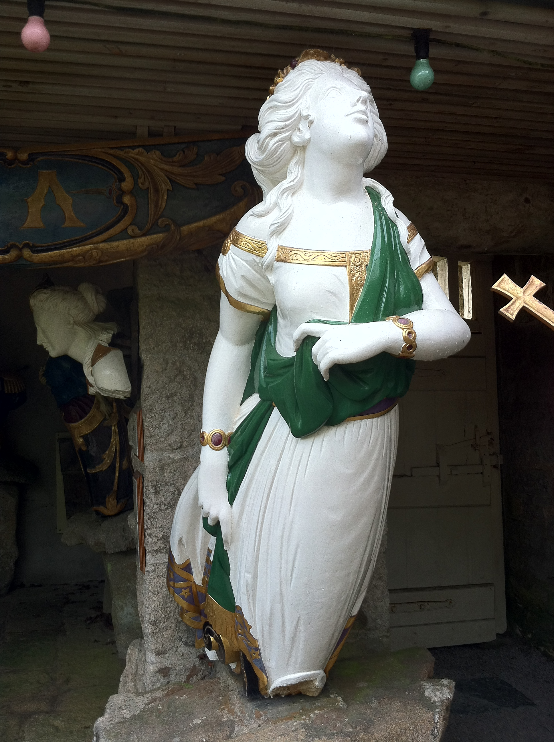 In dense fog, the iron barque River Lune struck the Brothers Rocks, west of St. Agnes, Isles of Scilly, in July 1879. The crew abandoned the sinking ship but were later able to return to collect personal belongings from the half-flooded wreck. This fetched £55 for salvage, and the figurehead was saved. In the Valhalla Museum in Tresco Abbey Gardens, Isles of Scilly.